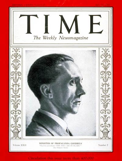 Time magazine, Volume 22 Issue 2. Front cover is a charcoal drawing of Joseph Goebbels.